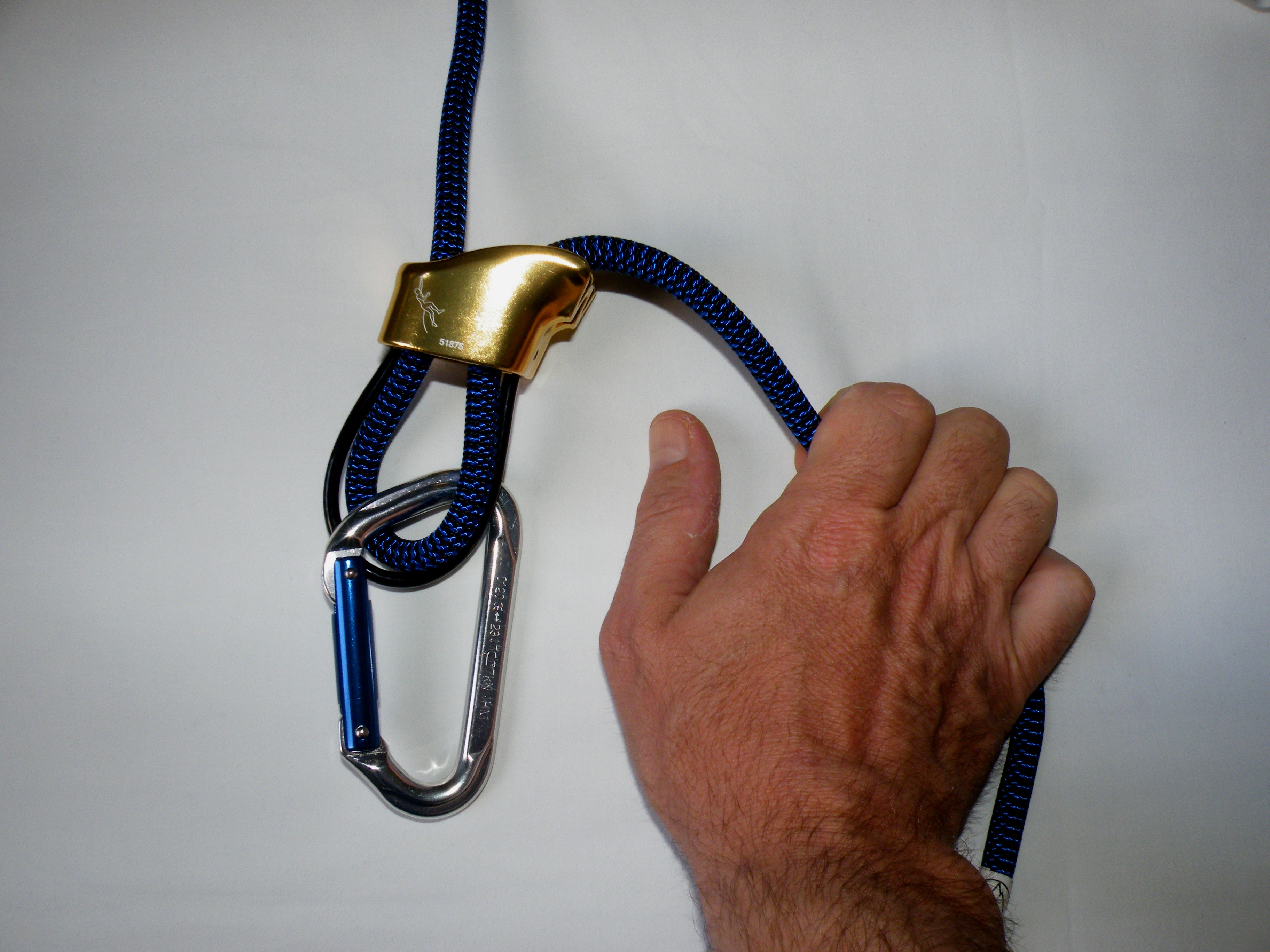 An example how to use rope in the belay device